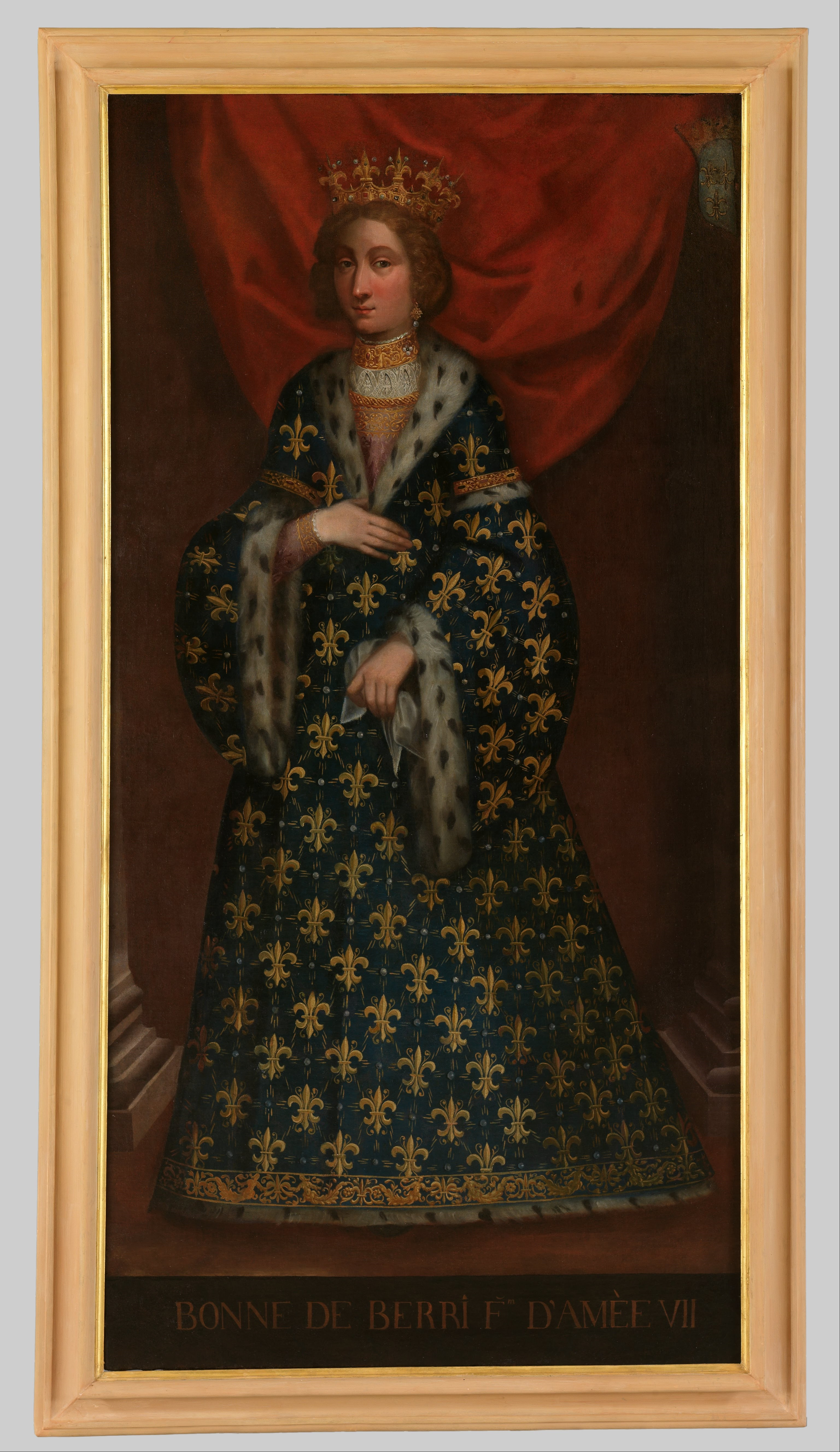 portait of Bona of Berry, wife of Amedeo VII